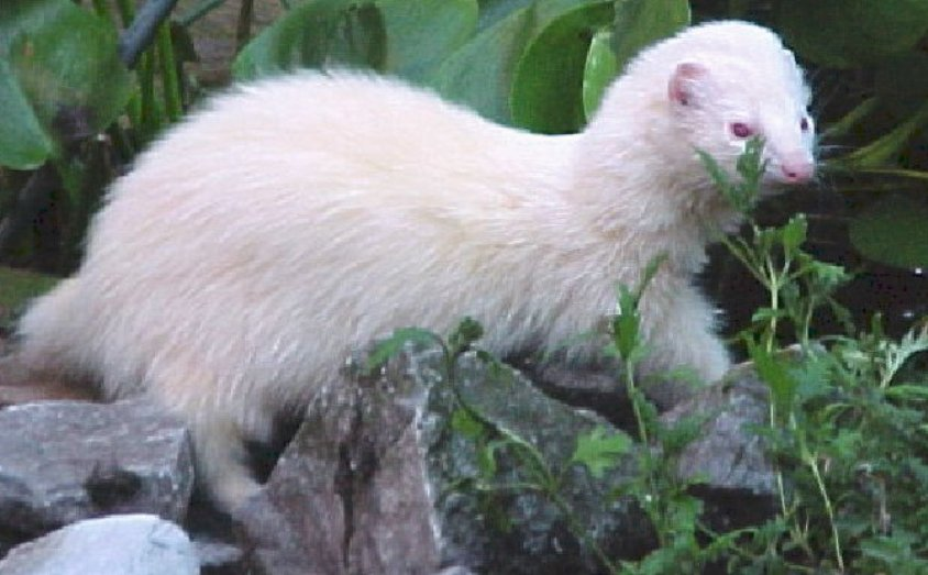 Mustela putorius